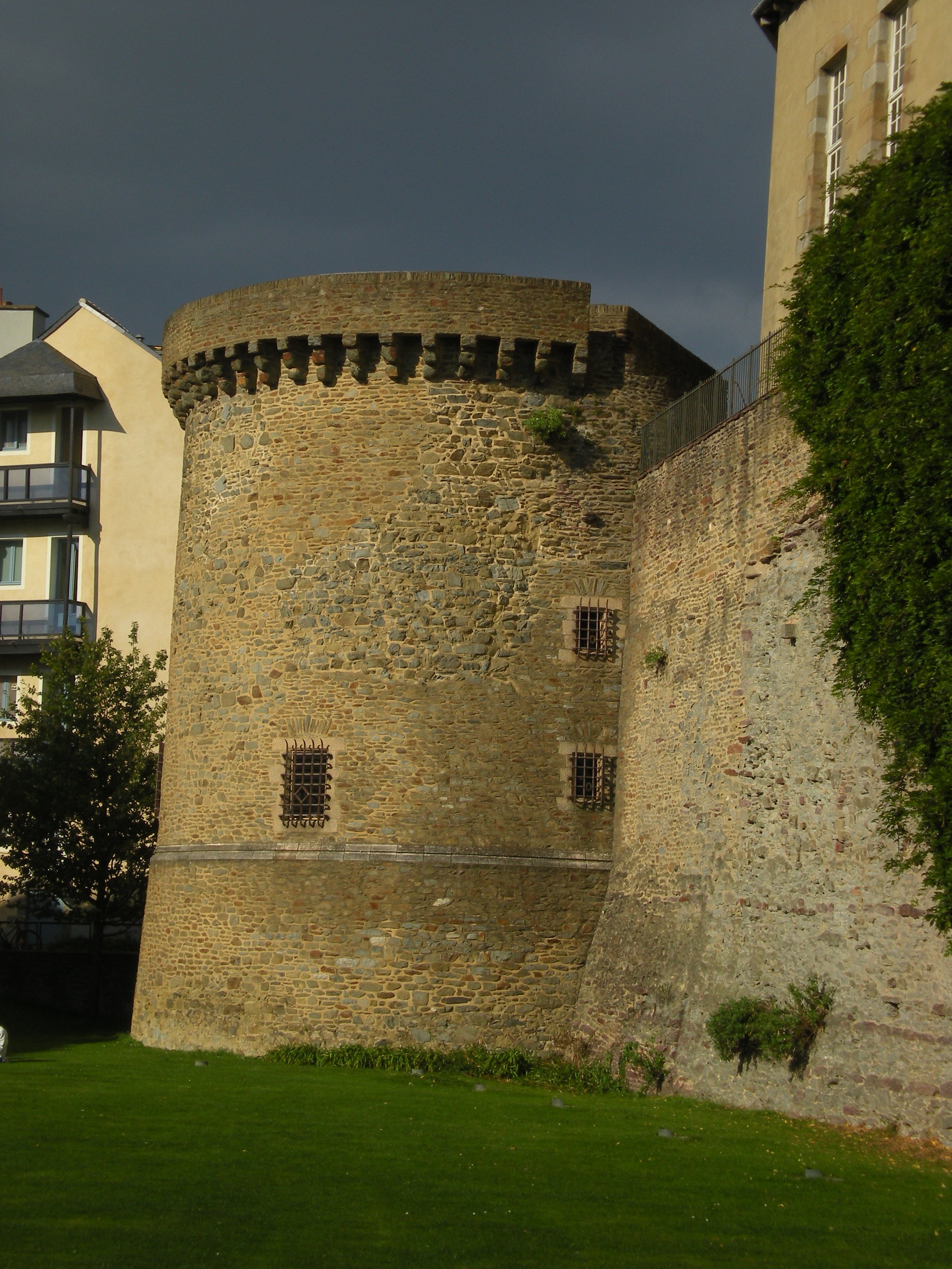 The Tour Duchesne, in Rennes.